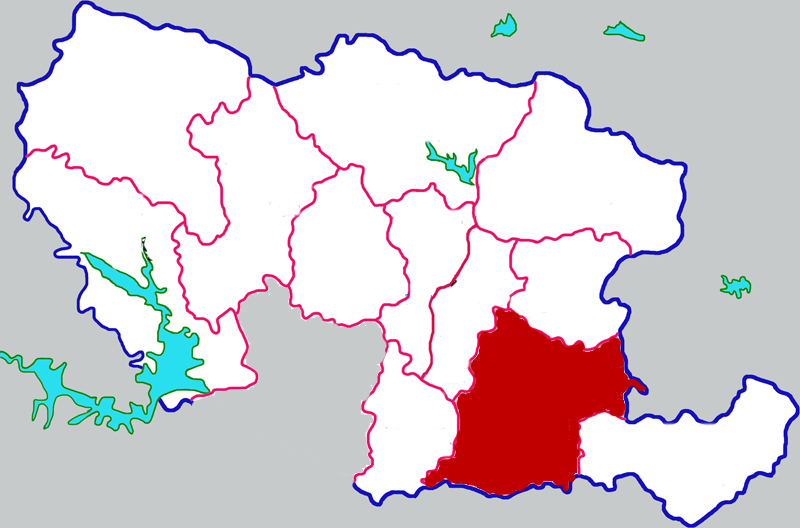 Location of Tanghe county in Nanyang city, China